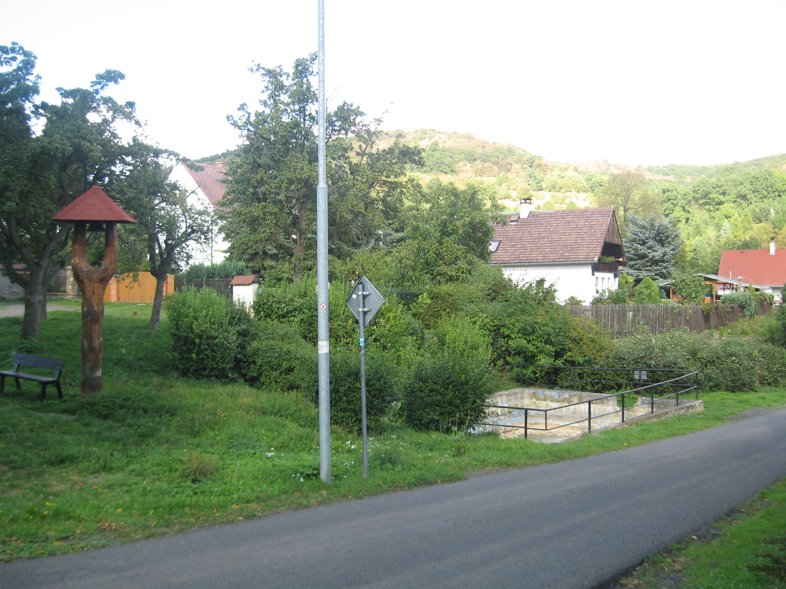 Village square in Moravany near Řehlovice